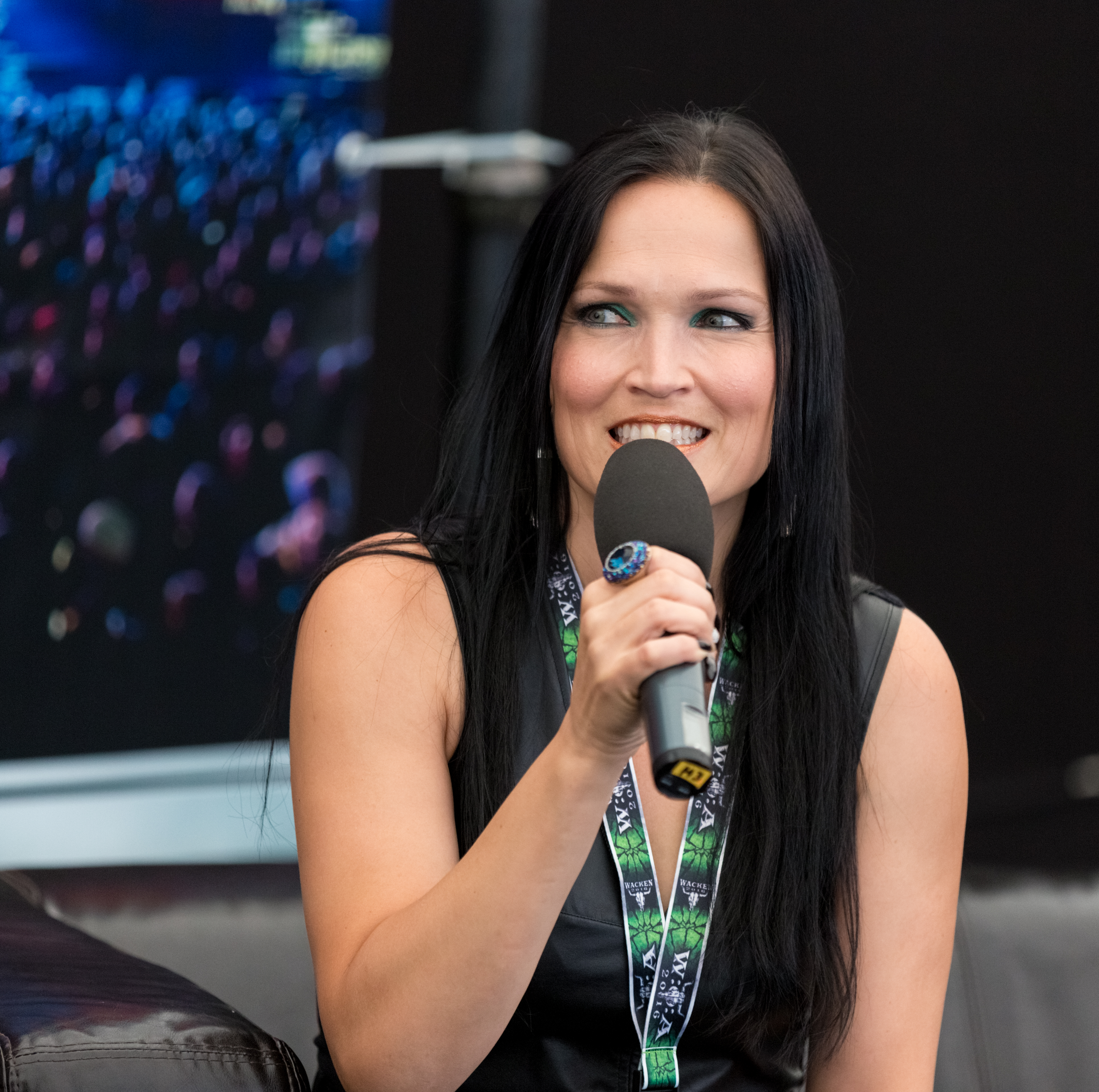 Tarja - Wacken Open Air 2016